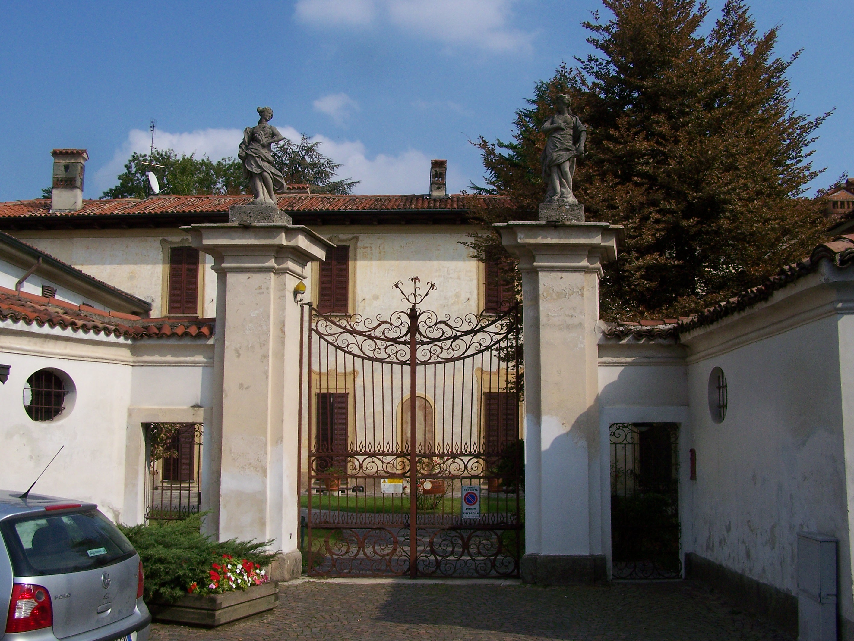 Villa Mareghetti in Corbetta (MI) - Italy